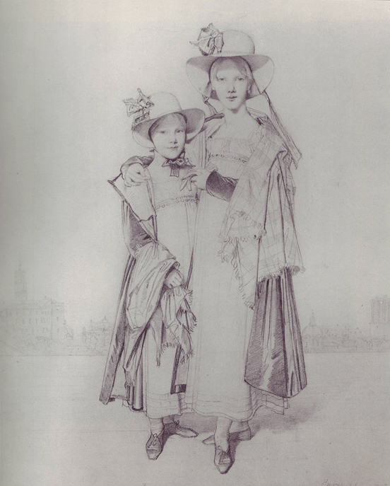 Lady Harriet Mary and Catherine Caroline Montagu, Rome 1815